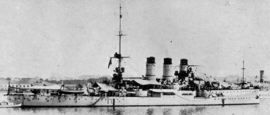 The Italian battleship Regina Margherita at Taranto